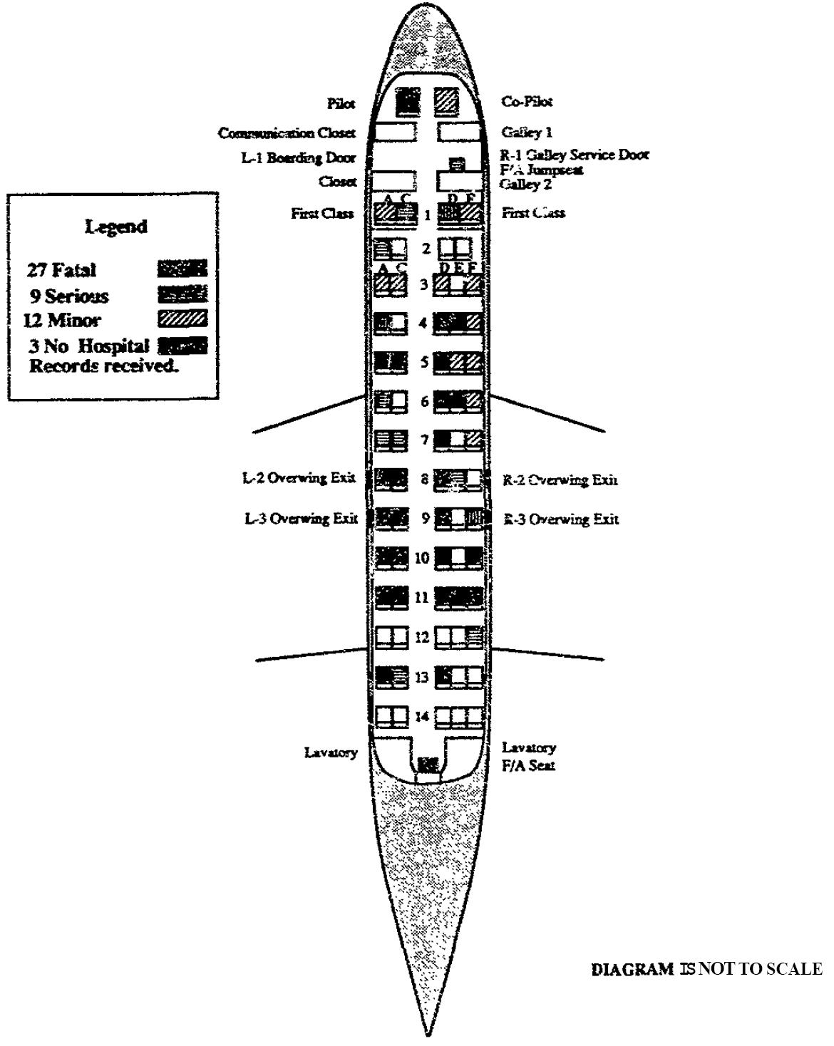 From Page 19 of 130 of the US Air 405 NTSB report